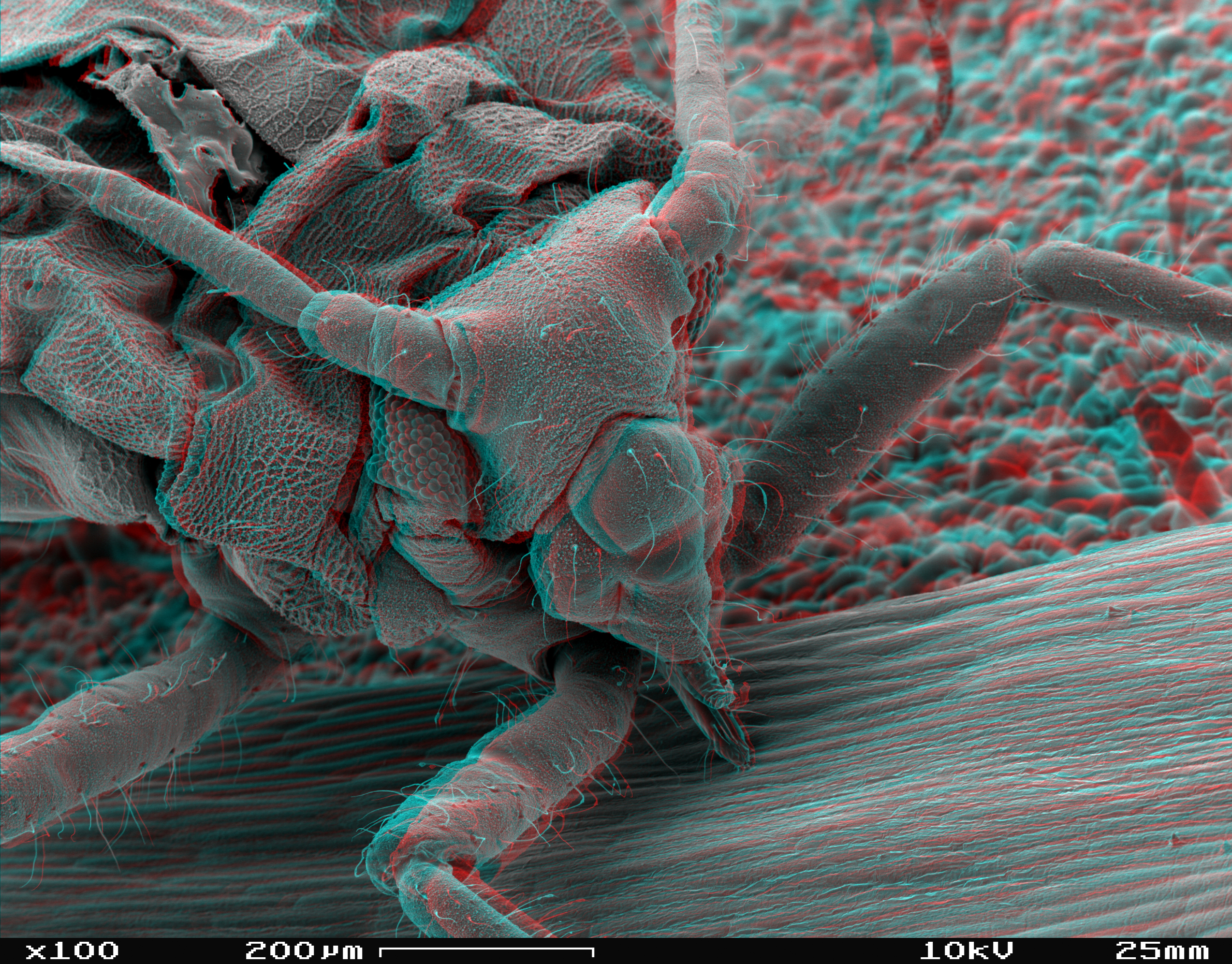 Anaglyph SEM image of Aphis fabae, magnification 100x